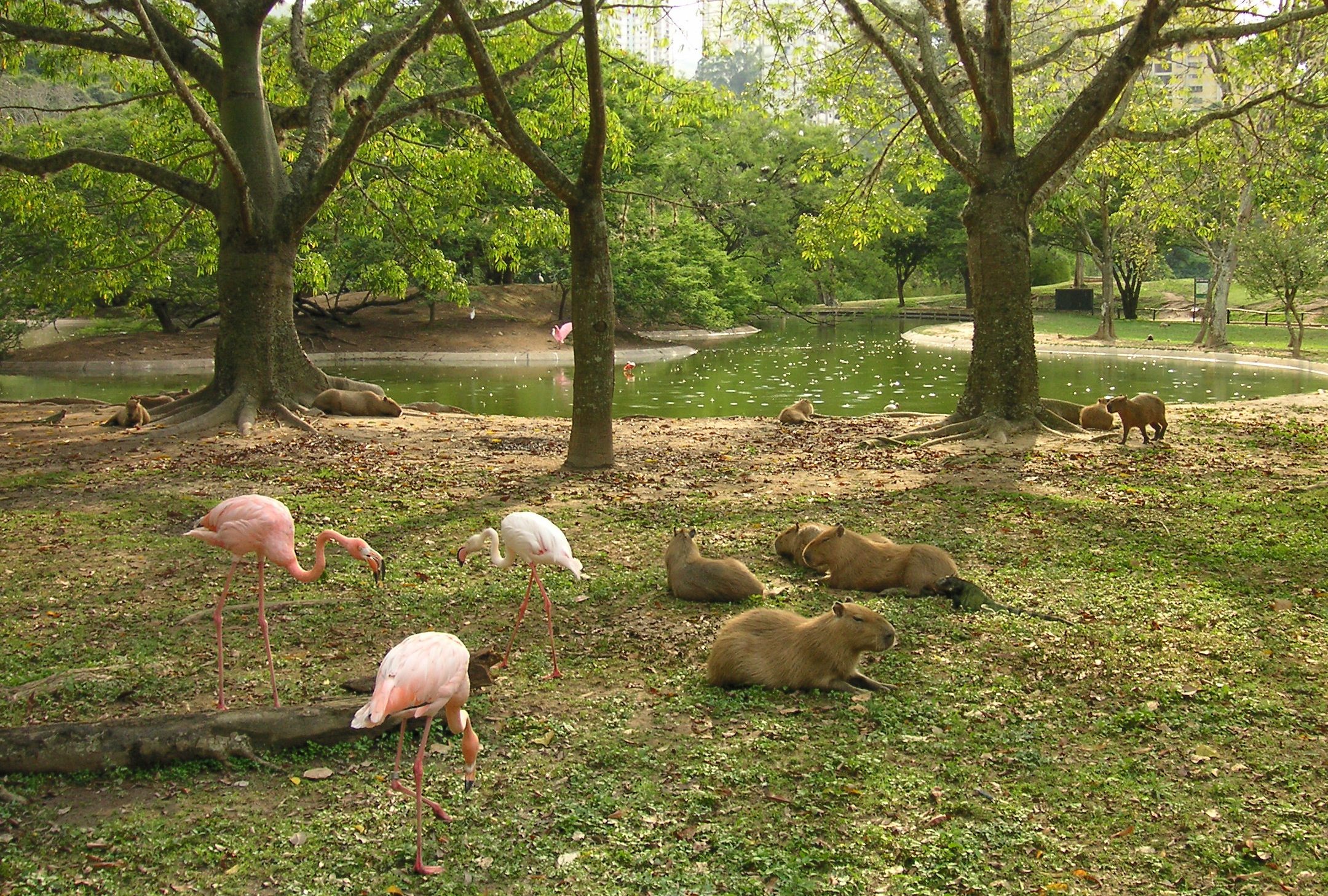 Caracas Zoo